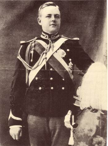 Photograph of Luis Felipe de Portugal, 20th duke of Bragança (1887 - 1908).